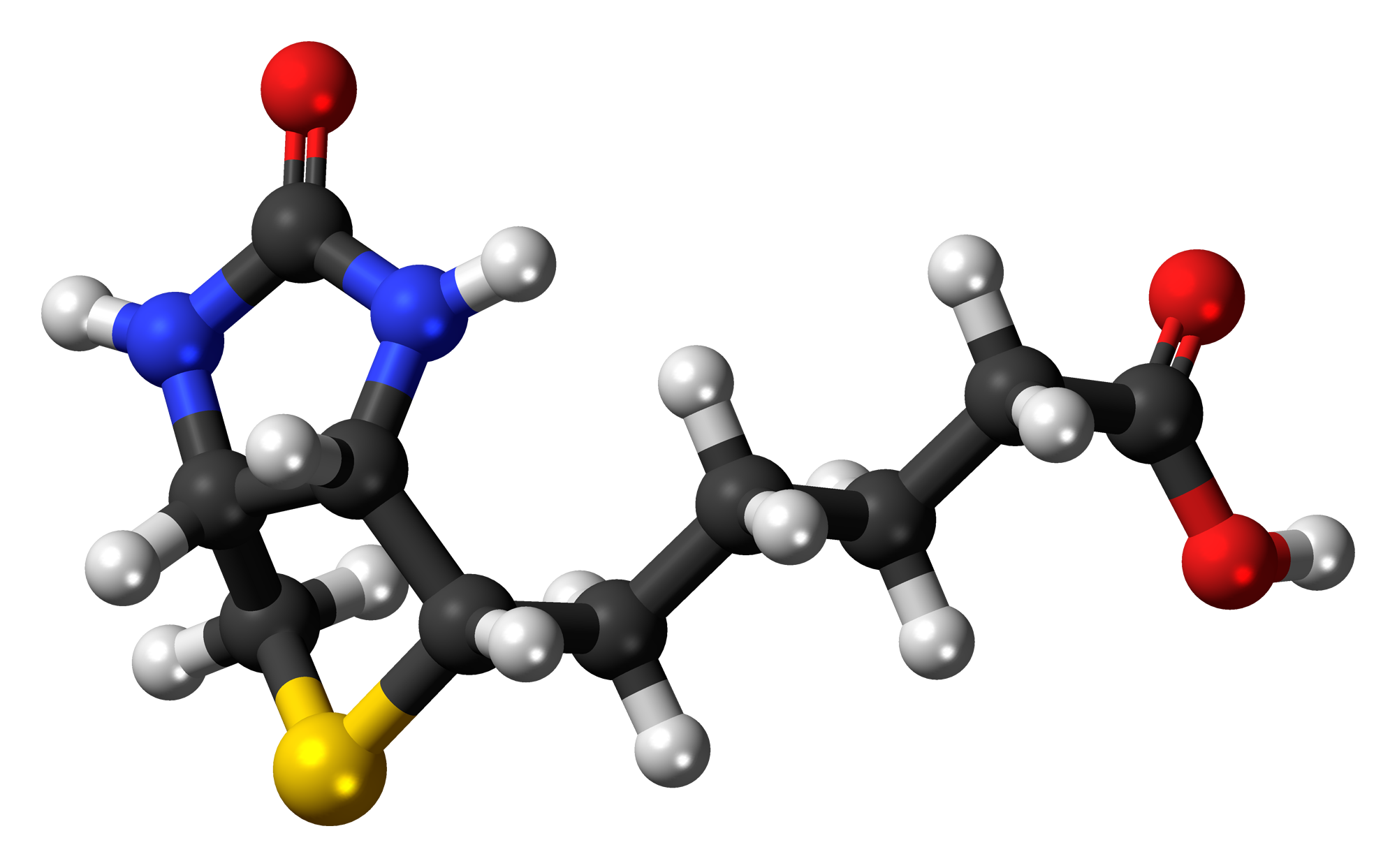 Ball-and-stick model of the biotin molecule, a B vitamin. Colour code: Carbon, C: black Hydrogen, H: white Oxygen, O: red Nitrogen, N: blue Sulfur, S: yellow